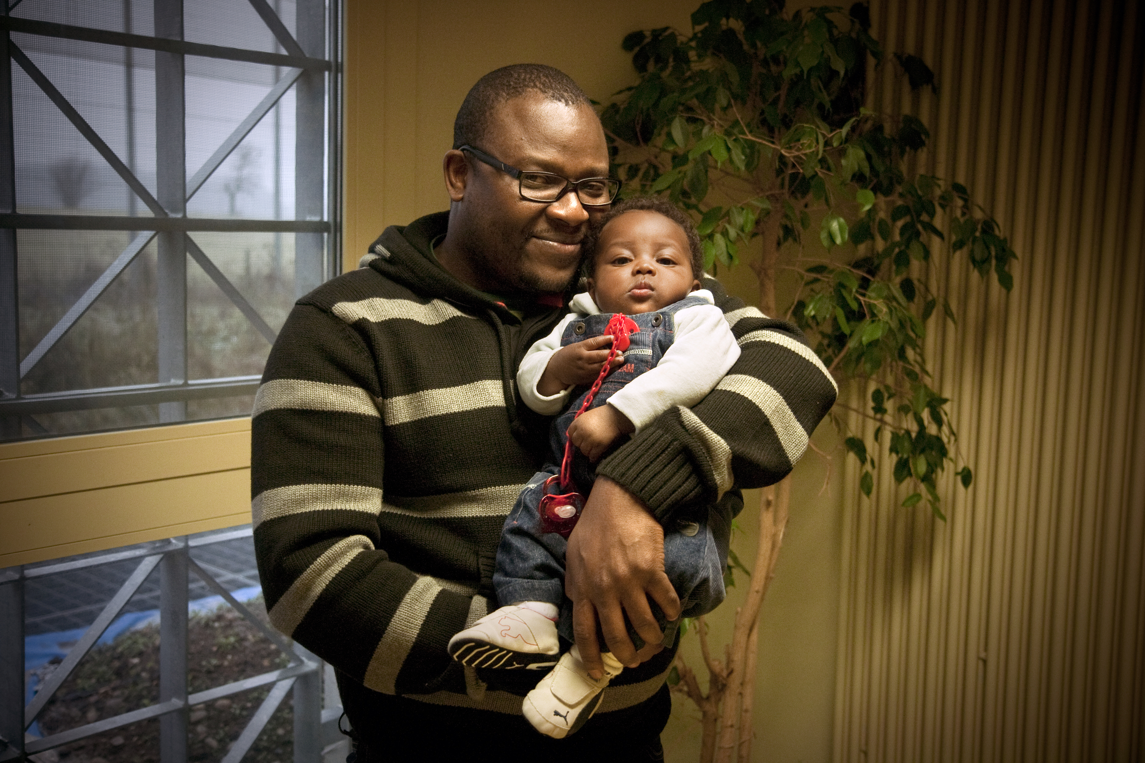 Pitchou, protagoniste du film « Vol Spécial » de Fernand Melgar, reçoit la visite de son fils au parloir de la prison de Frambois à Genève.